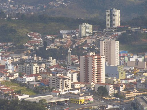 Center São Roque city